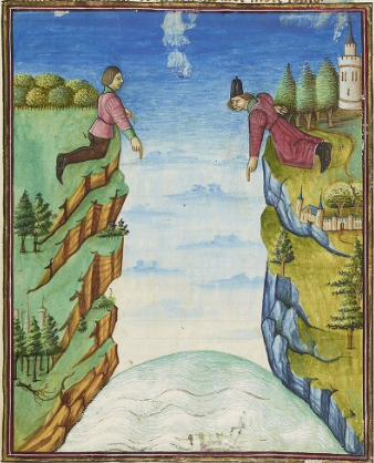 Illumination from Livre de la Vigne nostre Seigneur (Bodleian Library, Oxford MS. Douce 134)